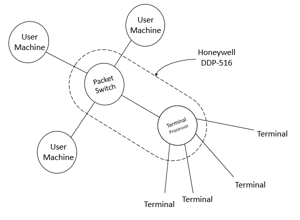 The national physical laboratory network diagram.